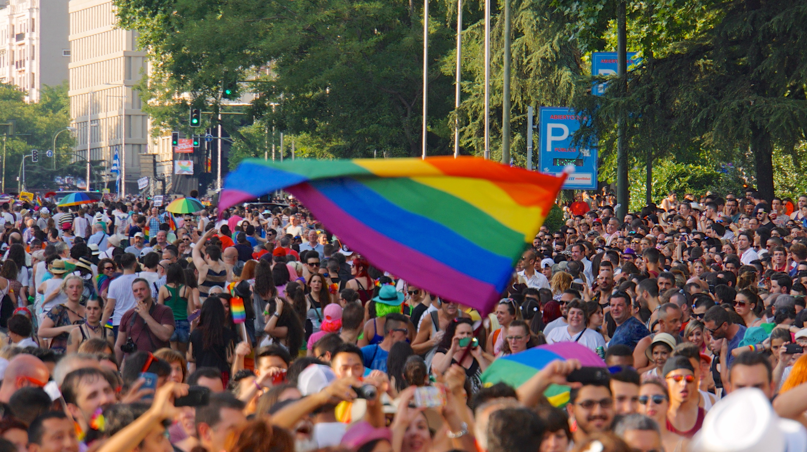 2015.07.10 The Power of Flags 2015.07.04 Madrid Pride Orgullo 2015